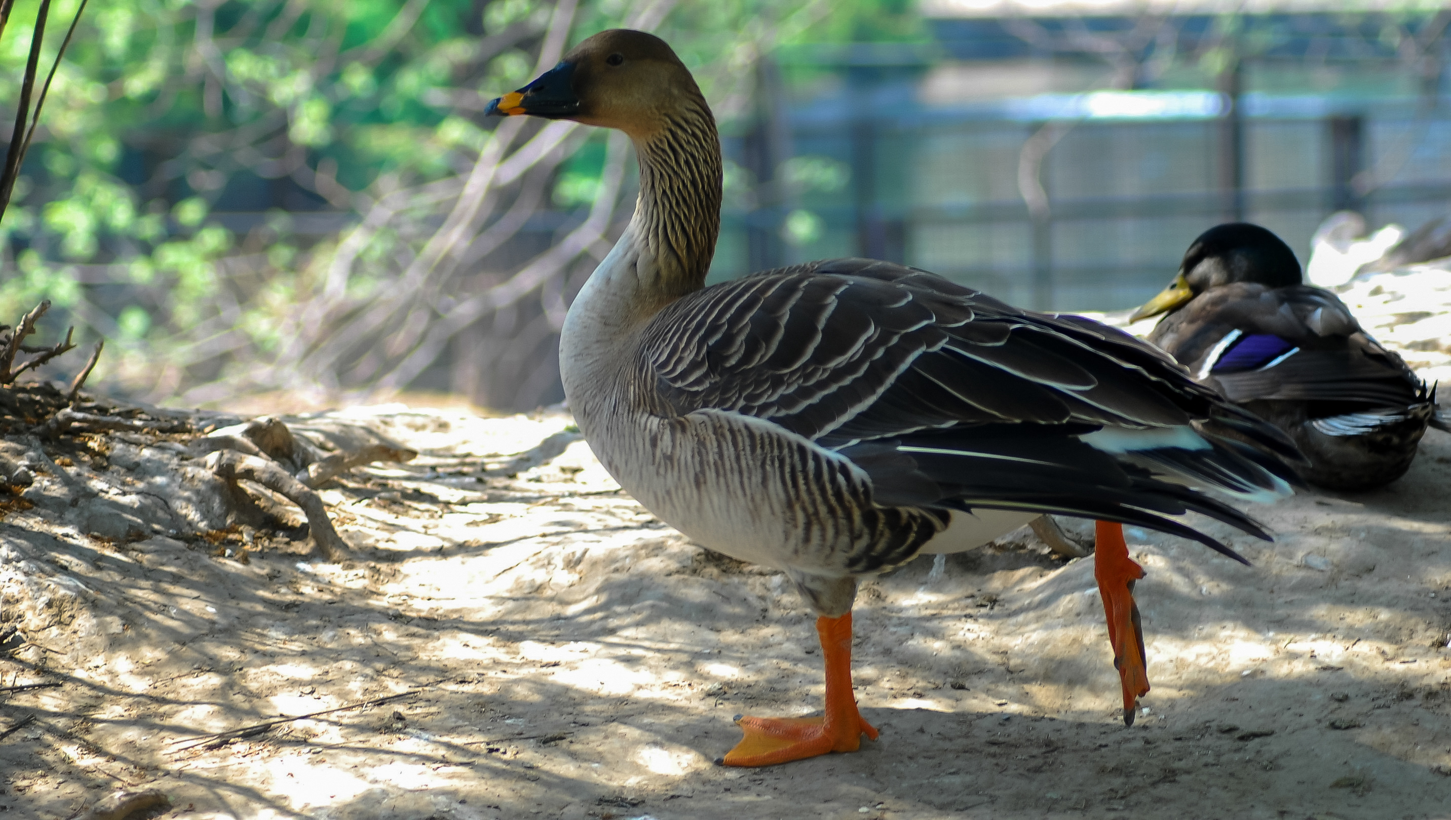 Anser fabalis at Beijing zoo